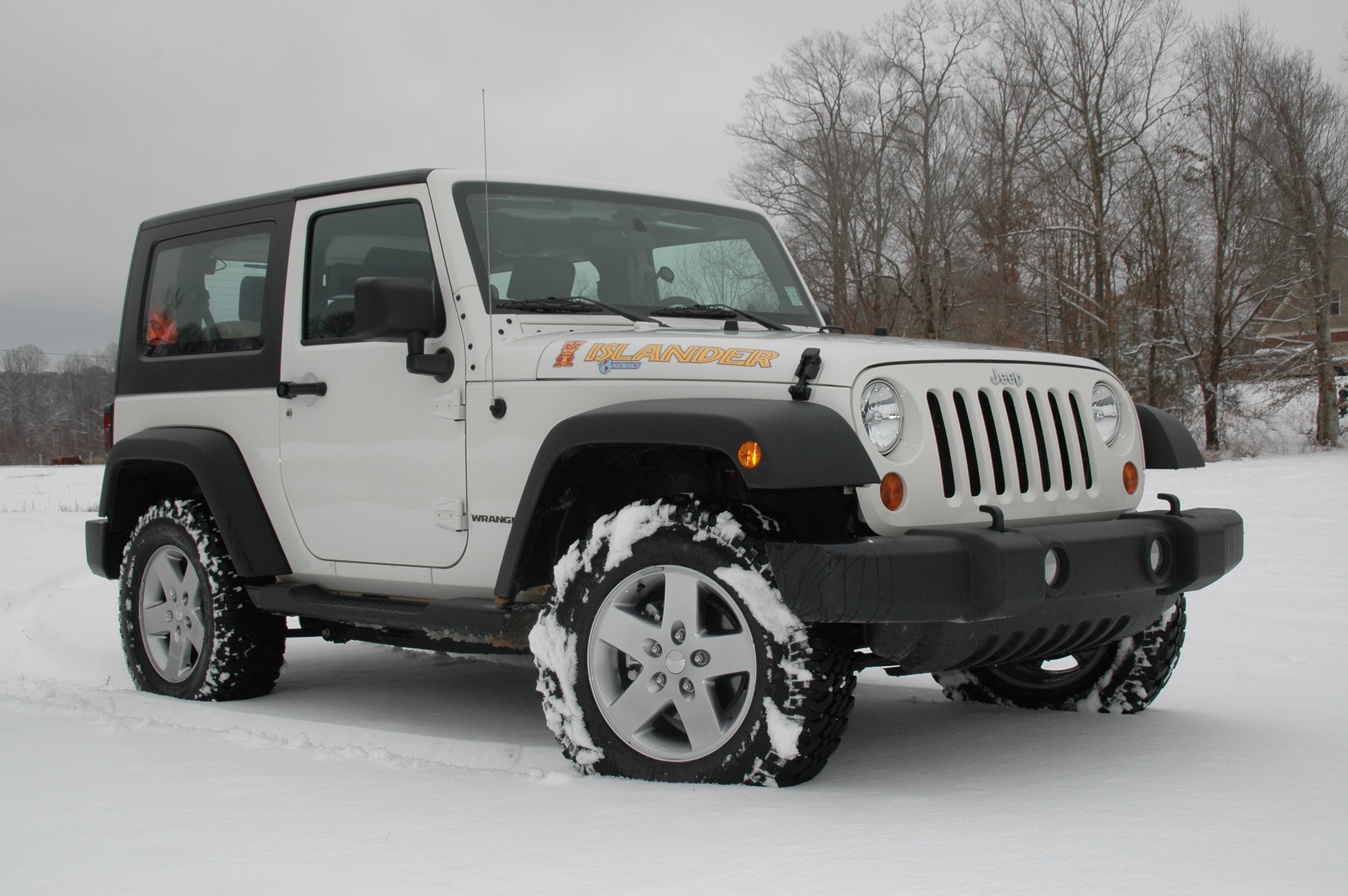 2010 model Jeep Wrangler Islander. Photo shows the stock version of the 2010 Jeep Wrangler 4x4 with the Islander package installed.Oshndoc (talk) 20:07, 24 October 2011 (UTC)